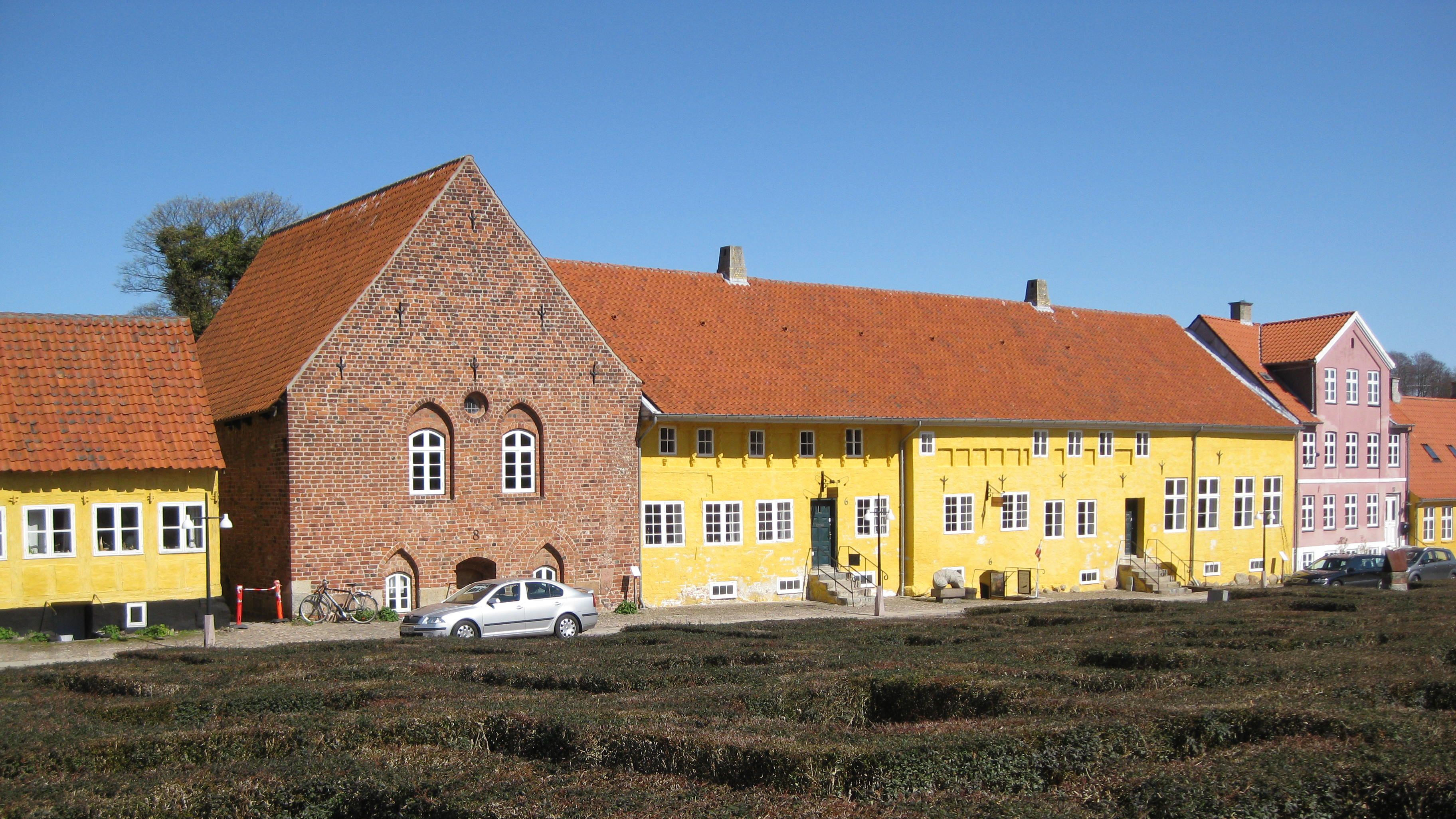 The old "Bispegaarden" (bishop´s palace) in the town Kalundborg. The town is located in West Zealand, Denmark.